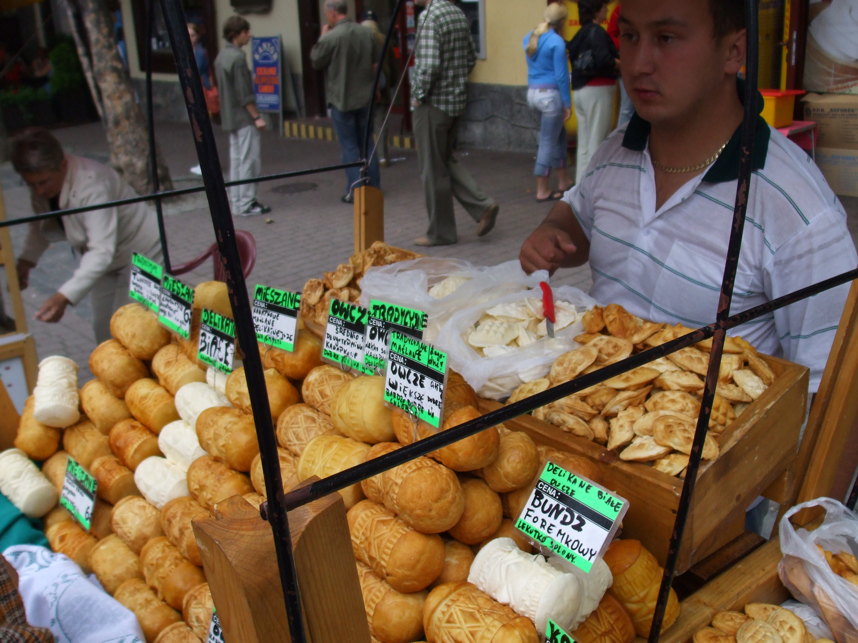 Queijo oscypek vendido na rua. Oscypek cheese sold on the street.